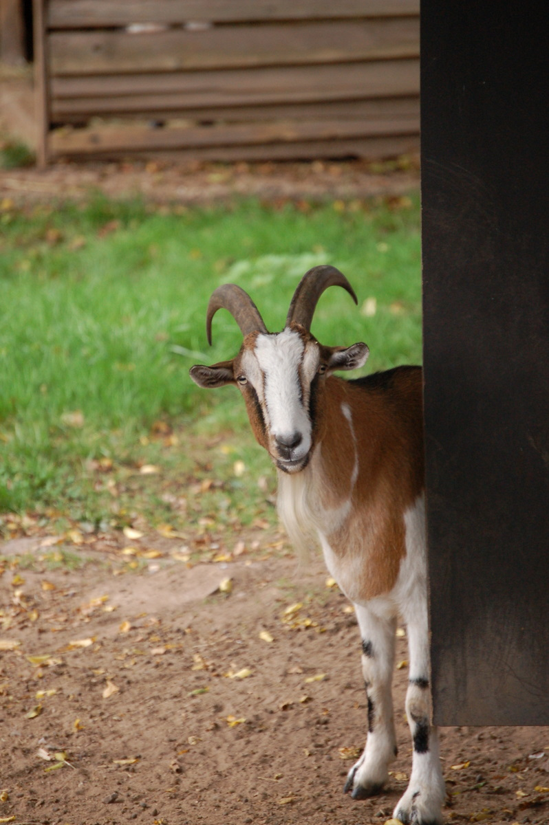 This image shows goat.